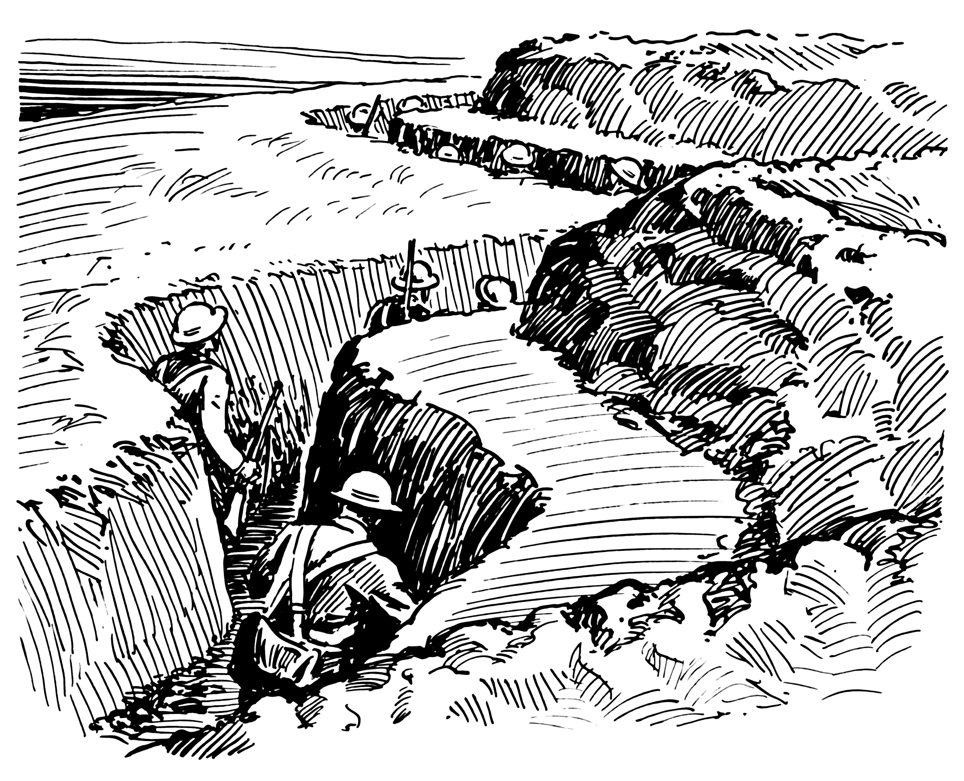 An illustration of entrenchment.